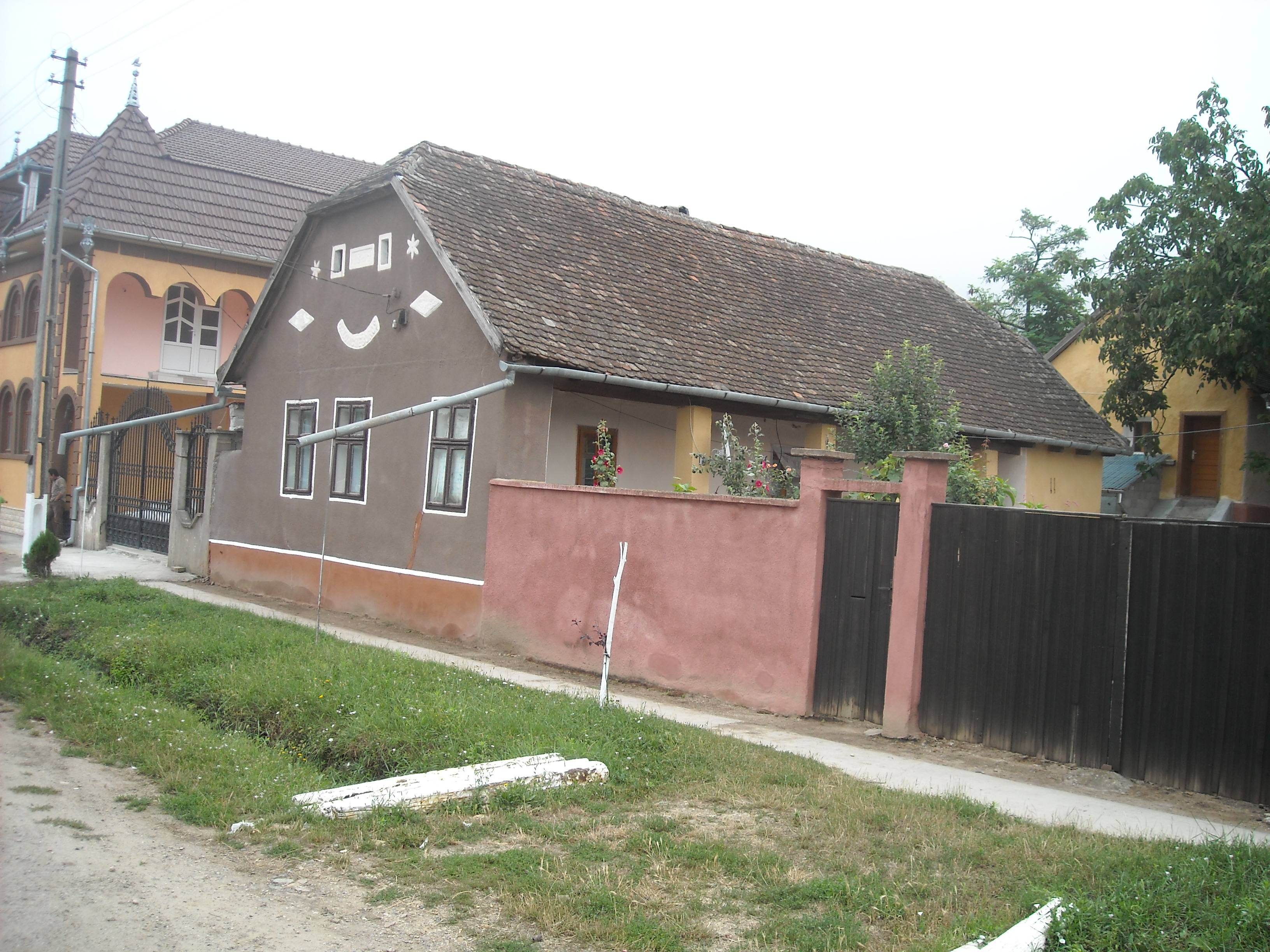 house from 1884, in the old Romanian part of Şiria